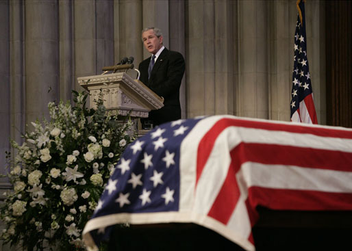 President George W. Bush delivers the eulogy for former President Gerald R. Ford during the State Funeral service at the National Cathedral in Washington, D.C., Tuesday, Jan. 2, 2007.